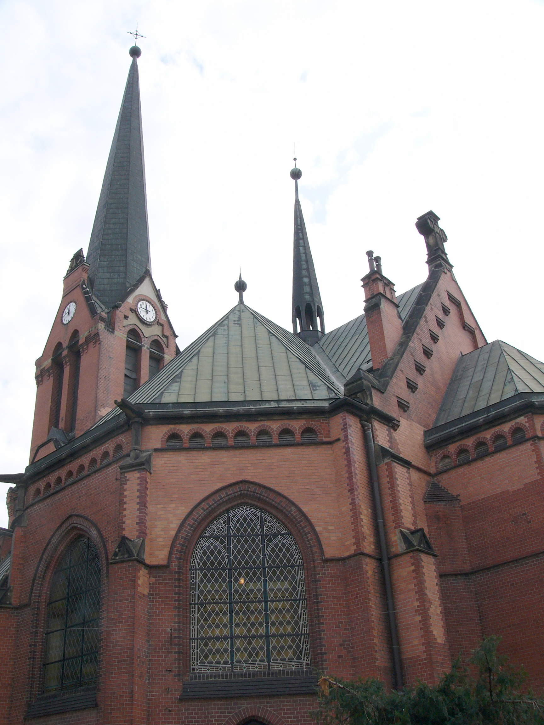 Red church in Olomouc (Czech Republic).